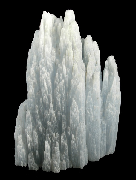 Anhydrite Locality: Naica, Municipio de Saucillo, Chihuahua, Mexico (Locality at ) Size: 8.4 x 8.9 x 4.4 cm. Naica is known to have produced some outstanding anhydrite specimens and this is an excellent example. This is a complete-all-around and nearly pristine cluster of parallel-growth, translucent blades with pretty light, ice-blue color. Classic, highly representative material for the species and famed locale.